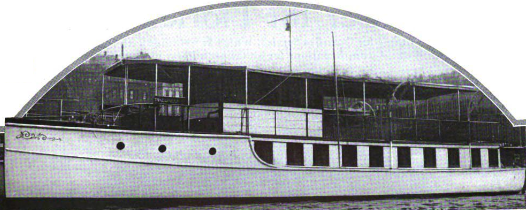 Black and white magazine scan of the yacht USS Tanguingui (SP-126), taken in 1916.